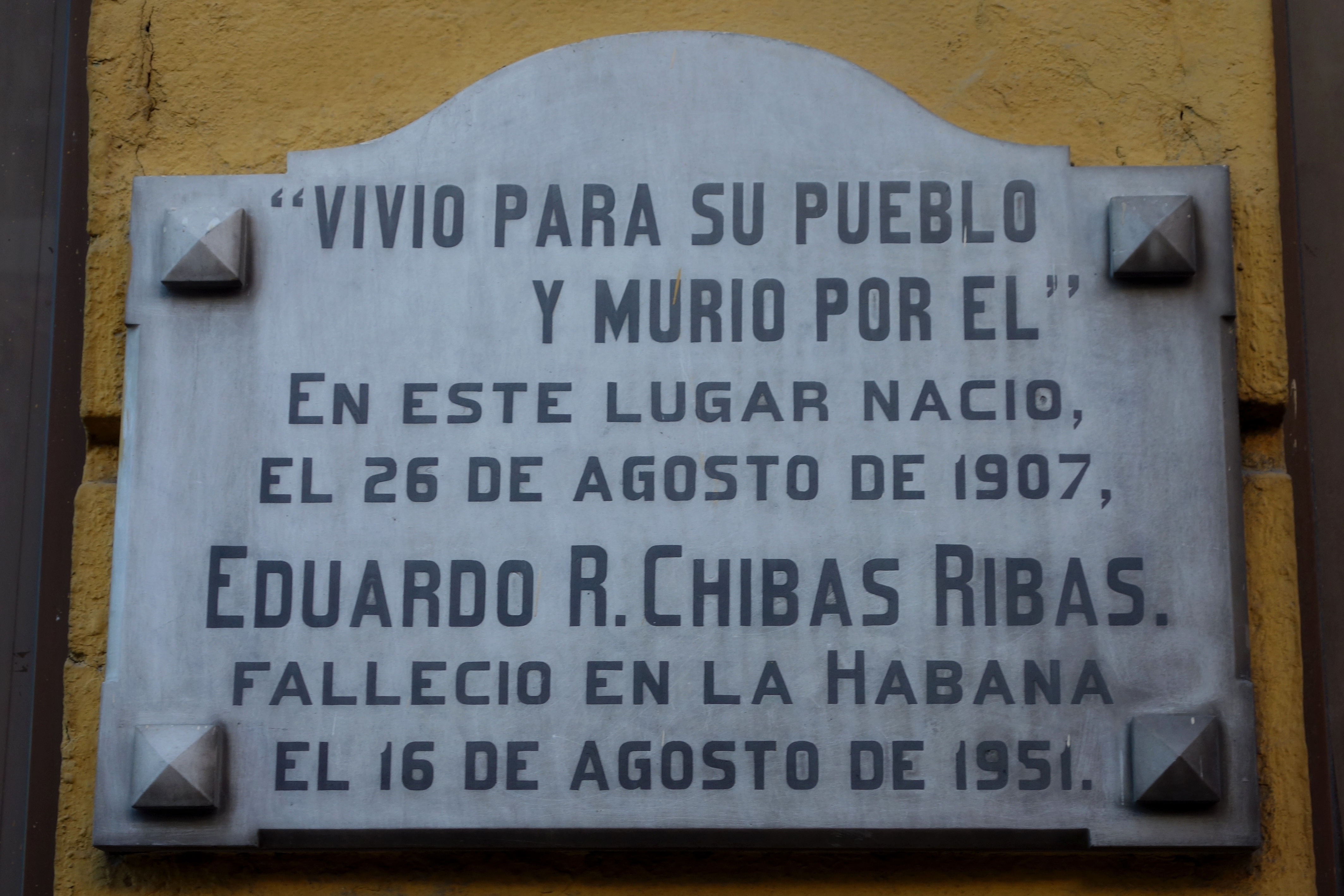 commemorative plaque for Eduardo Chibás at the house of his birth in Santiago de Cuba